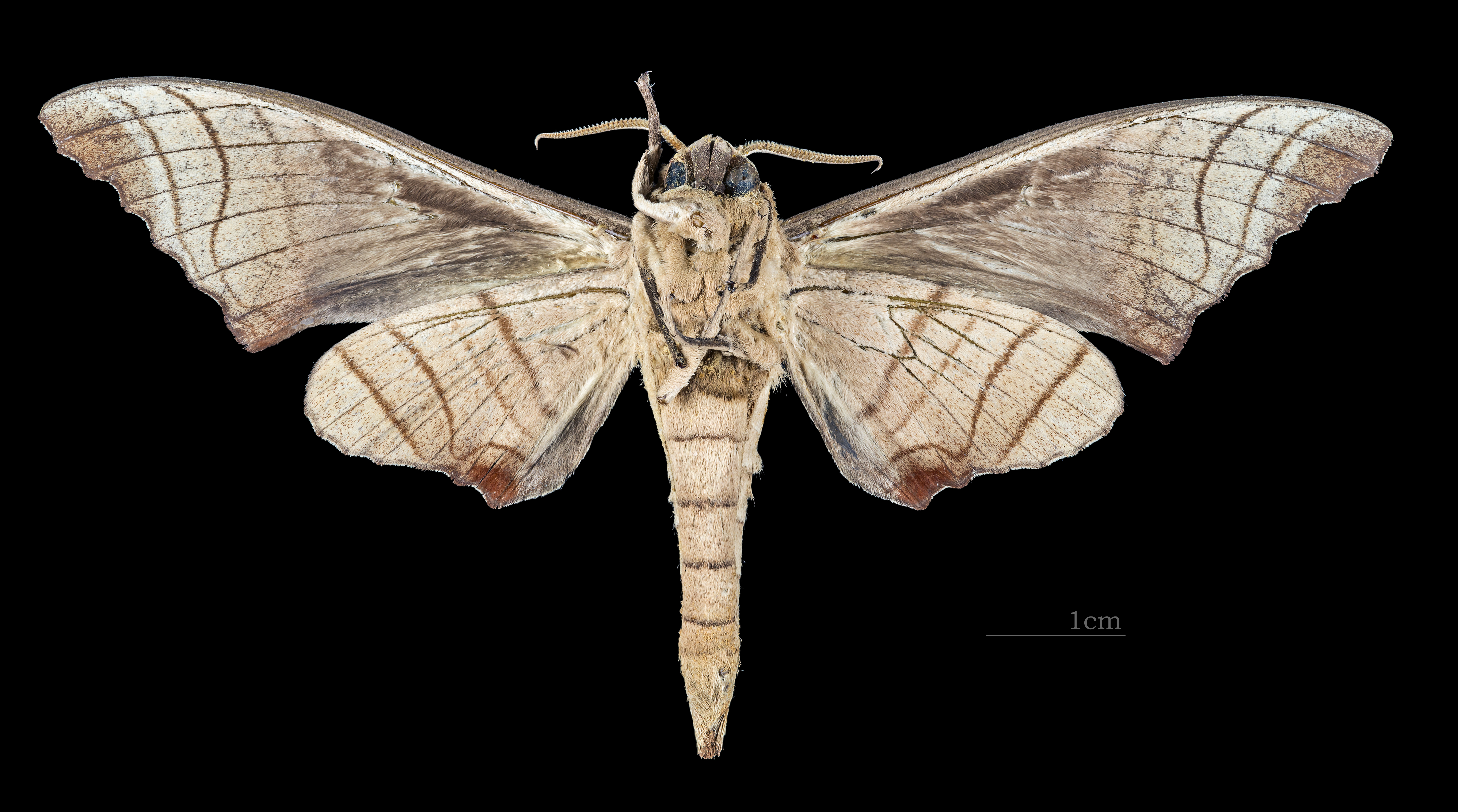 Marumba tigrina - △ Ventral side Collection of the Mathematician Laurent Schwartz